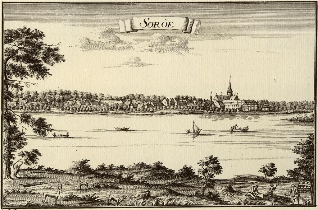 View of Sorø, Denmark